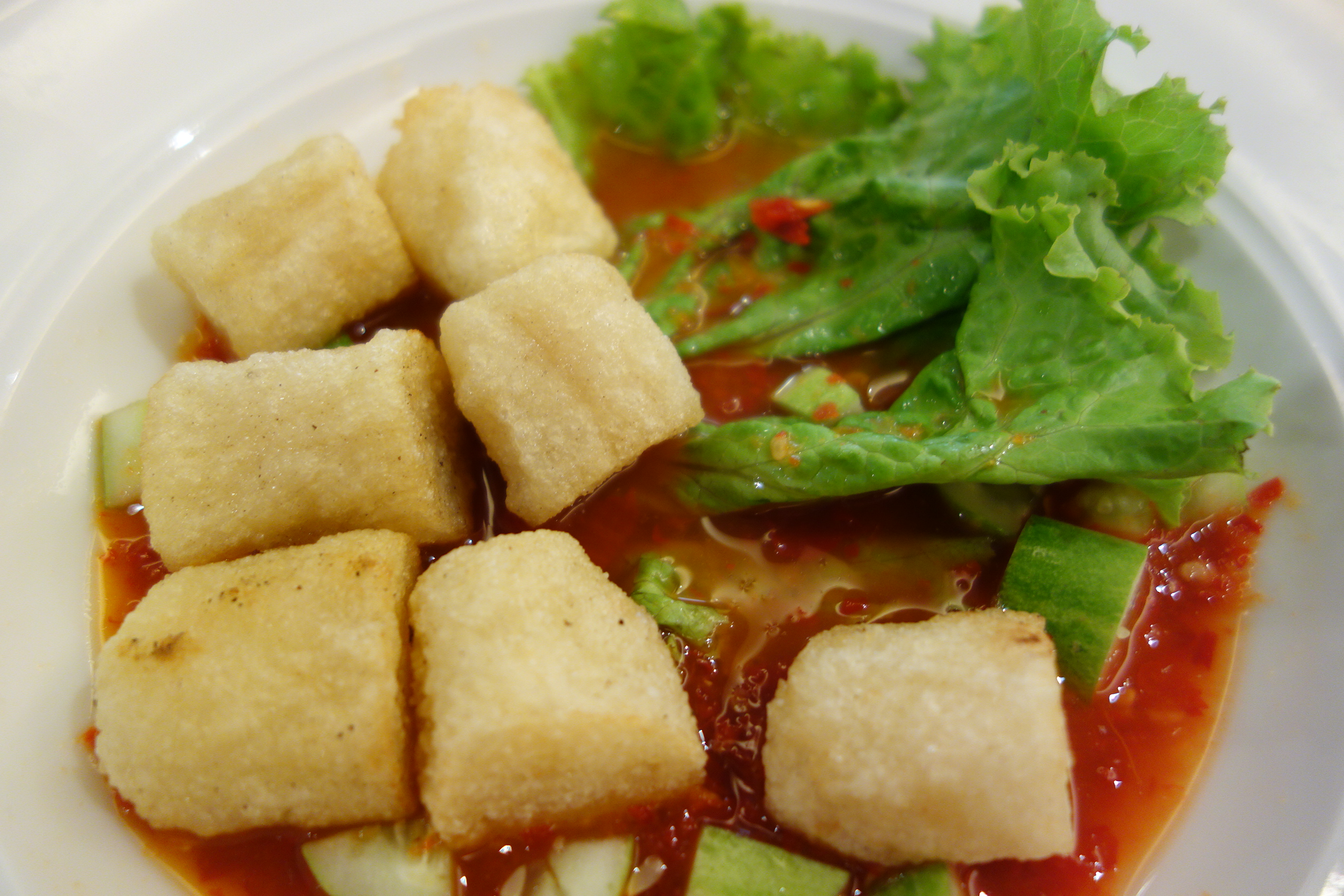 A poryion of pempek (recipe from Bankga island) with sweet and sour sauce in a restaaurant in Jakarta